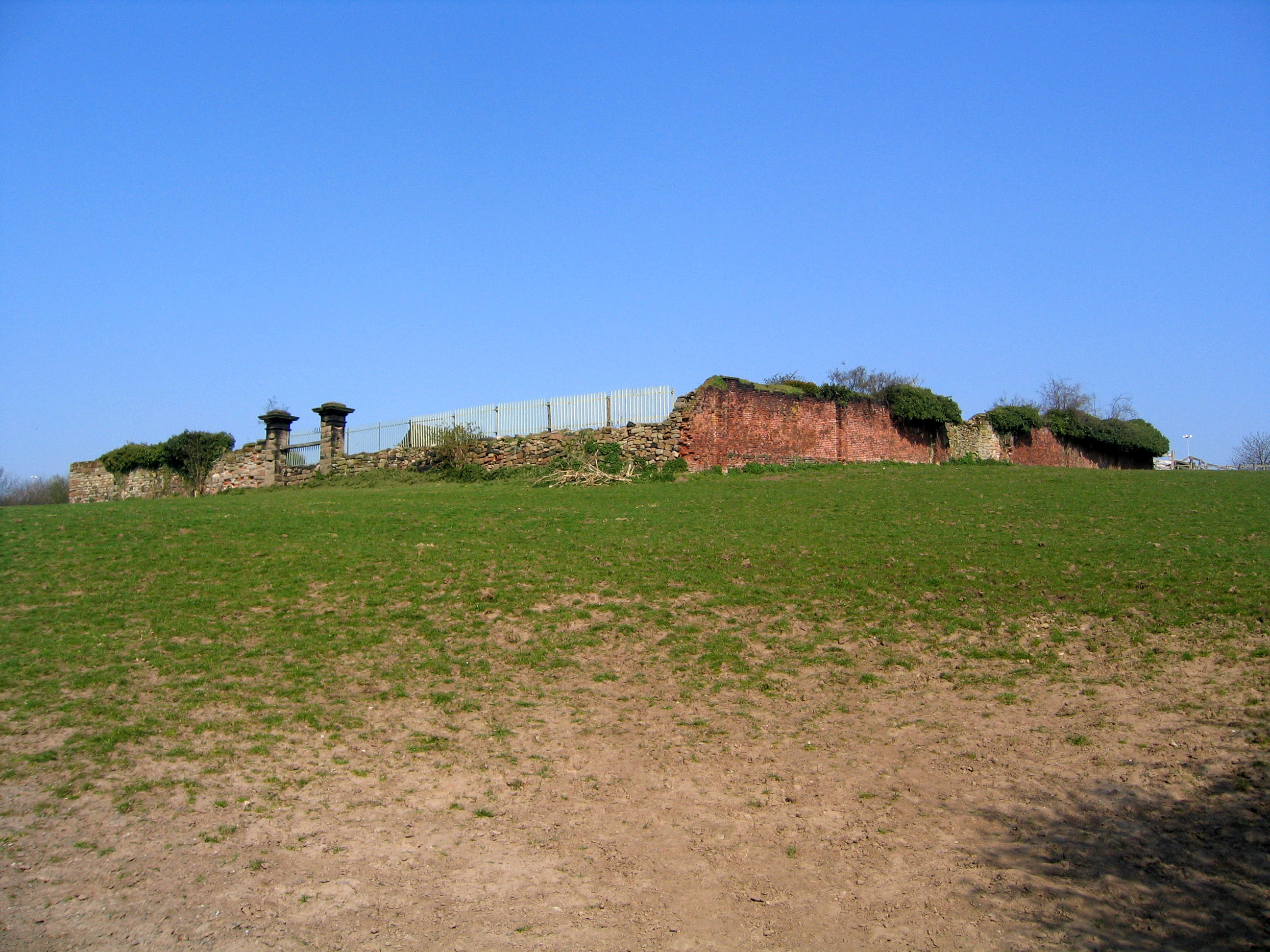 Photograph taken by me on 1 April 2007.